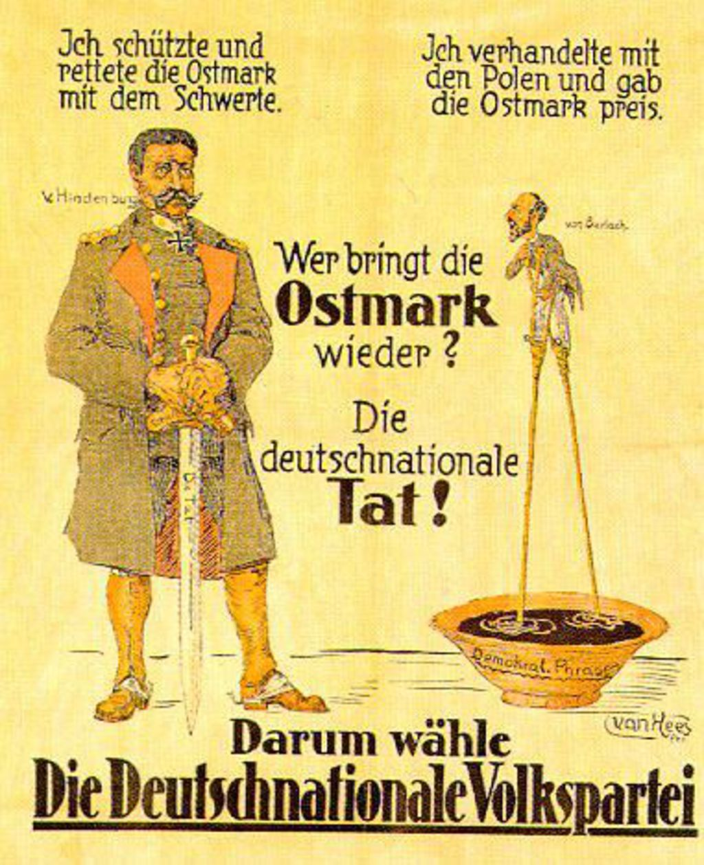 Gustav Adolf van Hees - Wer bringt die Ostmark wieder? Poster for election campagn. 1919